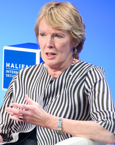 The opening plenary, “Peace? Prosperity? Principle? Securing What Purpose?,” with Ambassador Kay Bailey Hutchison, United States Permanent Representative to NATO, and Dr. Margaret MacMillan, Professor of History at the University of Toronto.